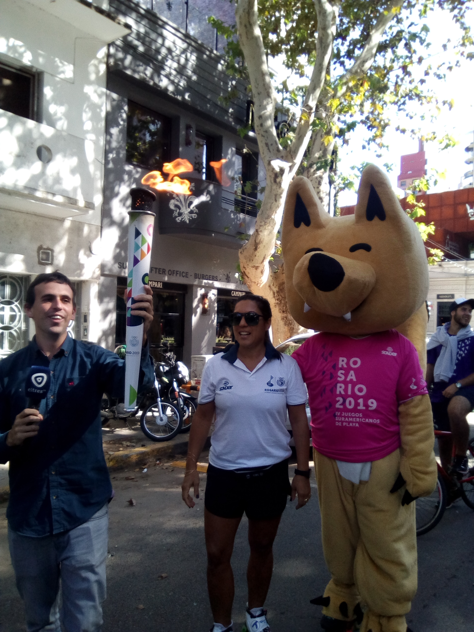 Torch relay of the 2019 South American Beach Games at Oroño Boulevard.